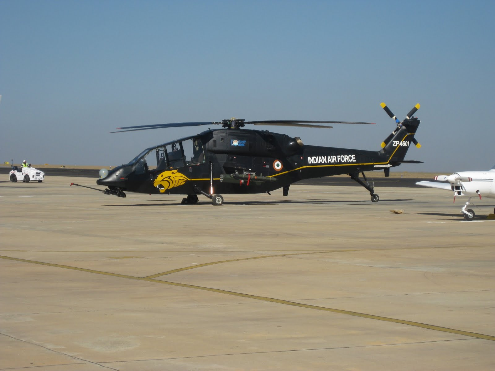 HAL Light Combat Helicopter Technology Demonstrator-1